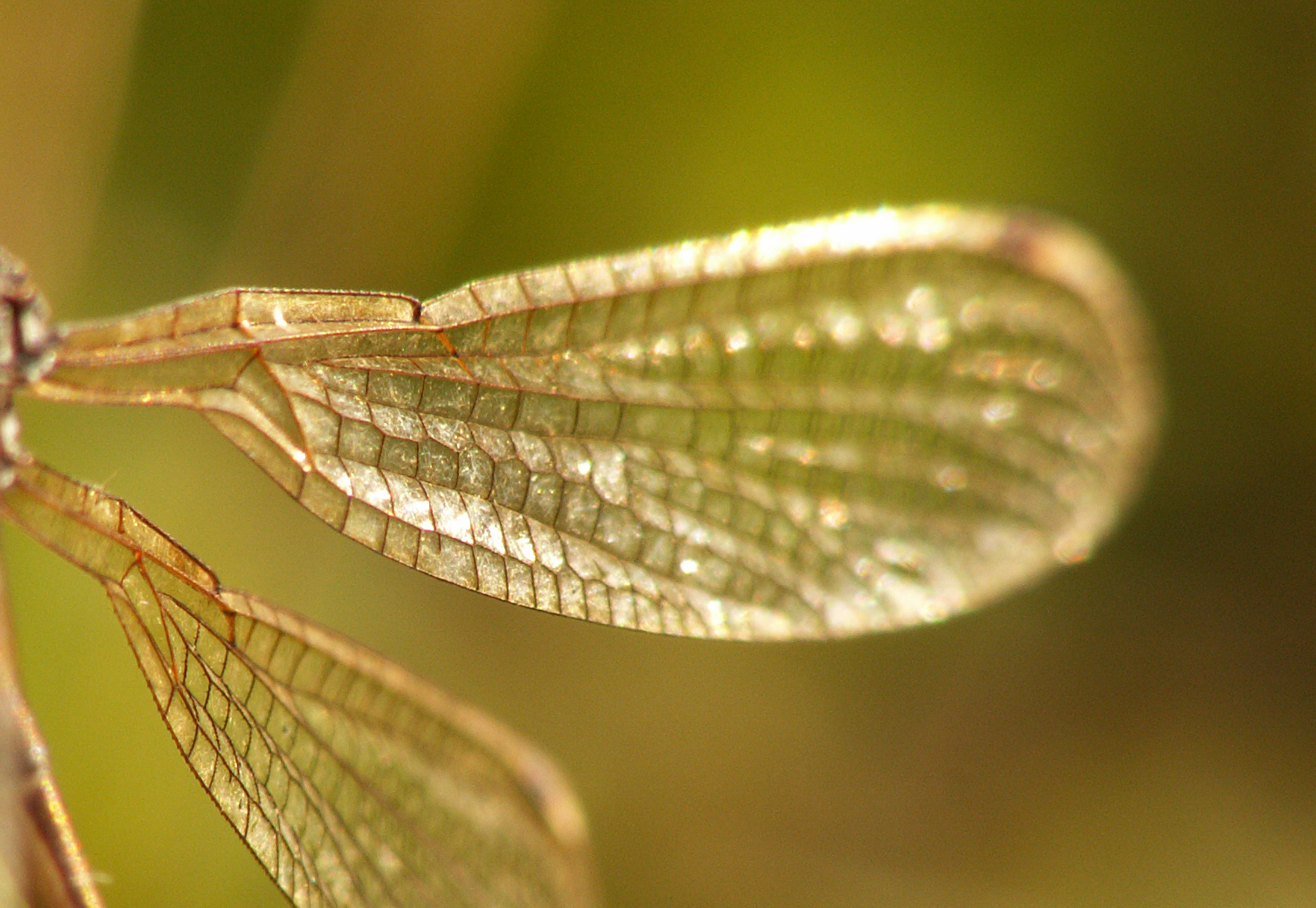 Structure and cells at the wing base of Lestes barbarus